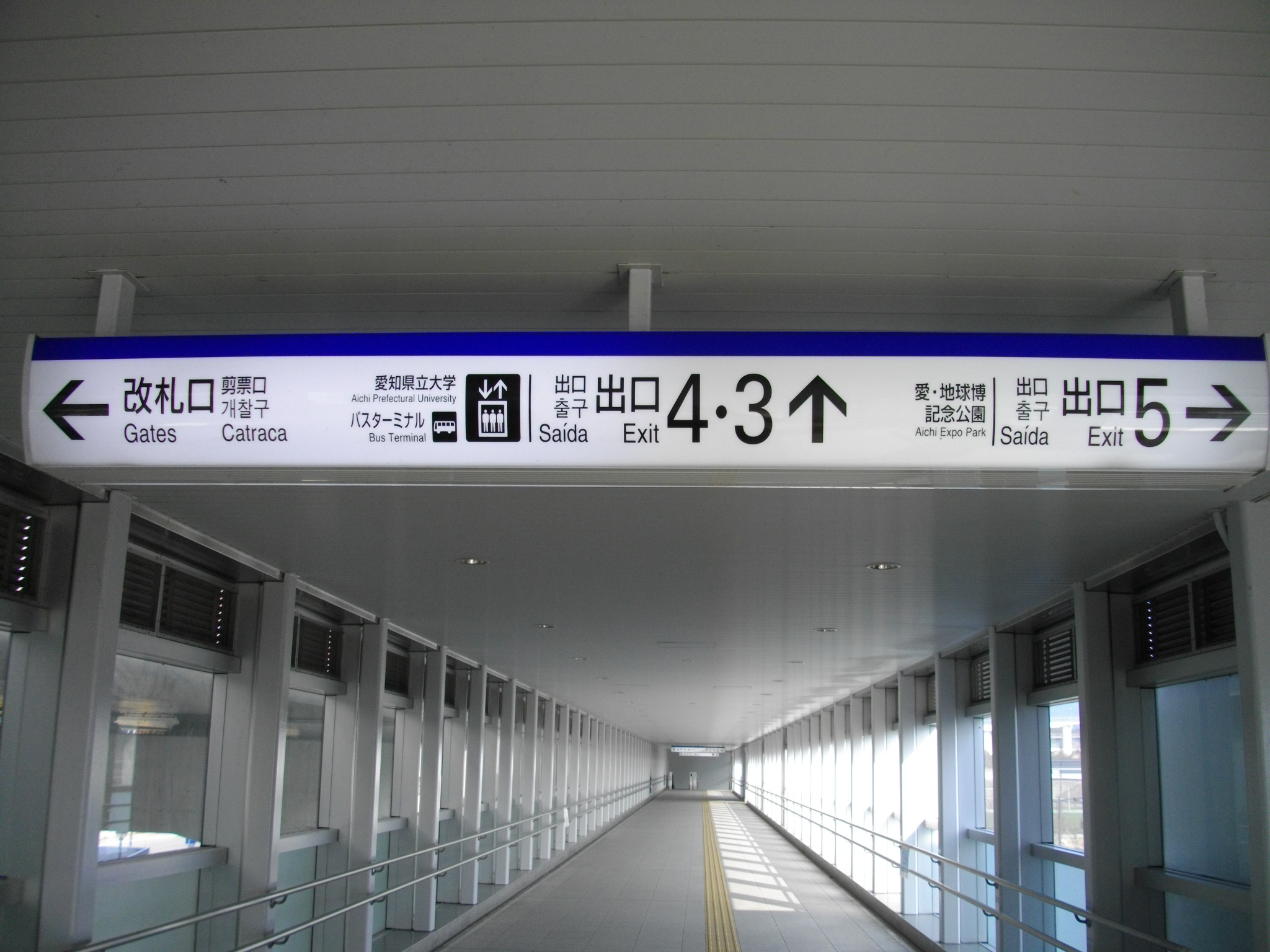 Aichikyuhaku-kinen-koen Station sign